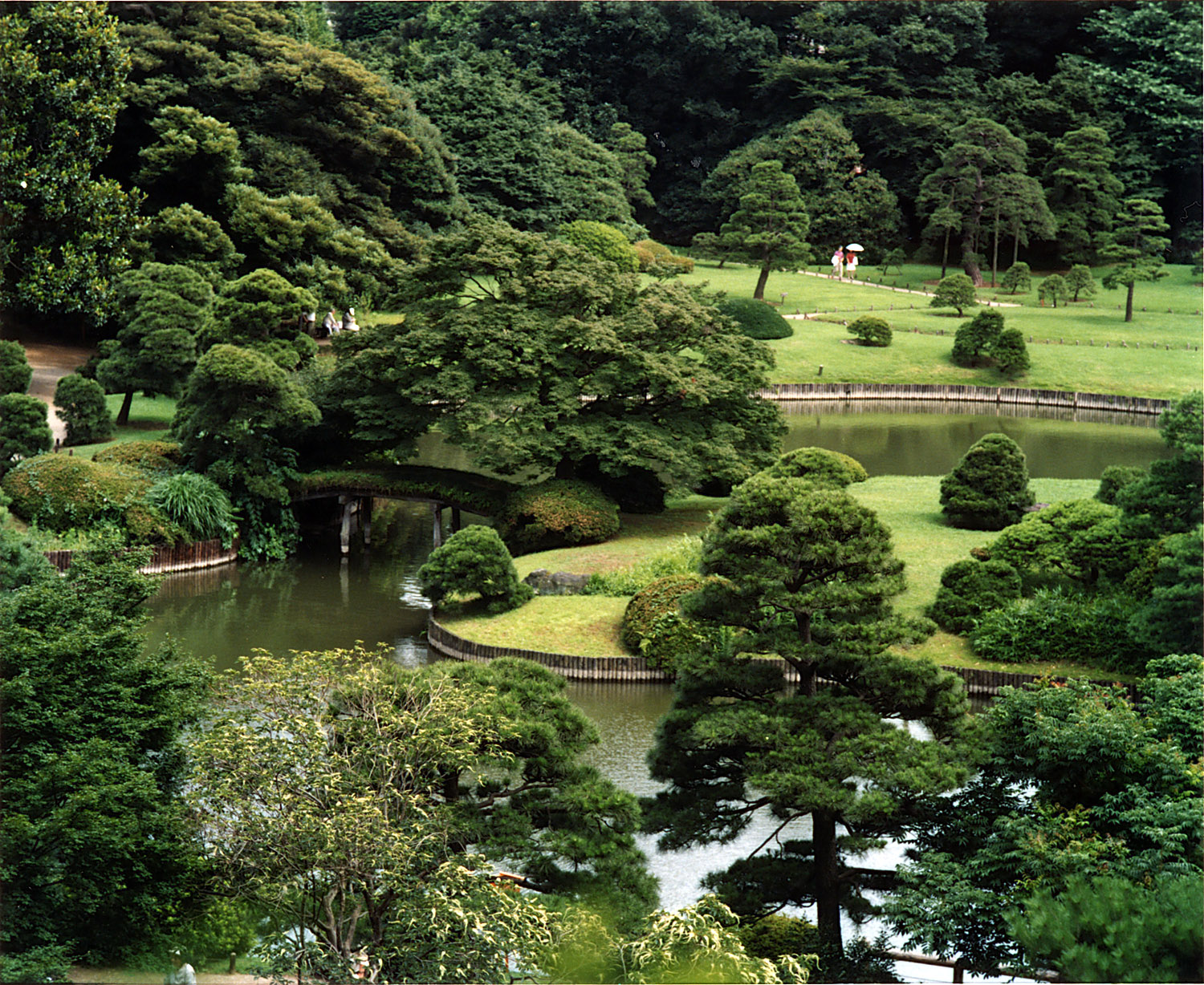 Rikugien, a Japanese garden in Tokyo, Japan. I took the photo.